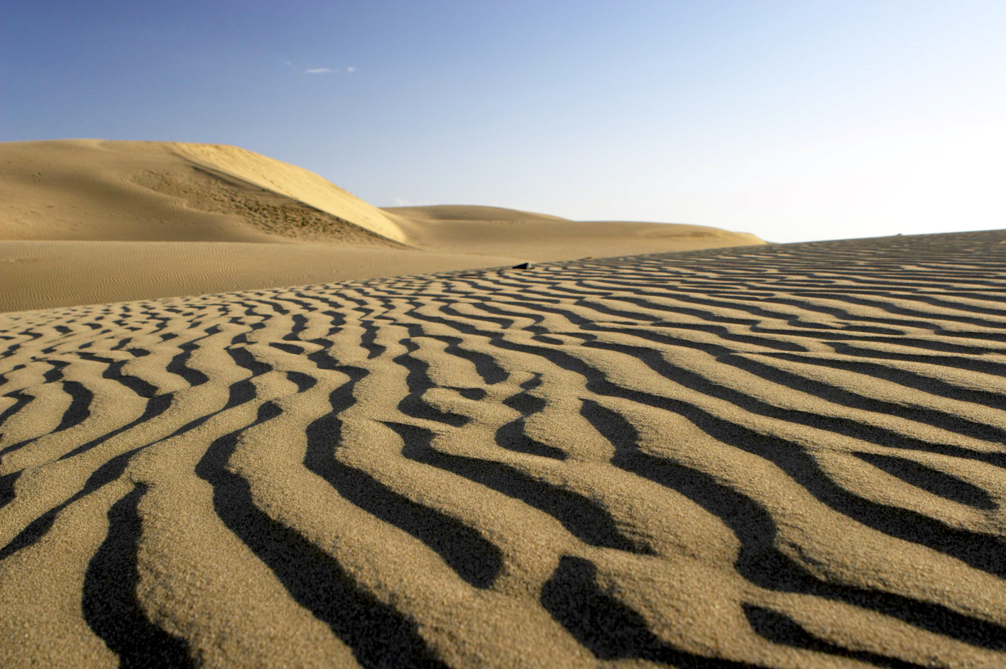 Europe, Spain, Gran Canaria, Maspalomas, dunes, sand, ocean and mood